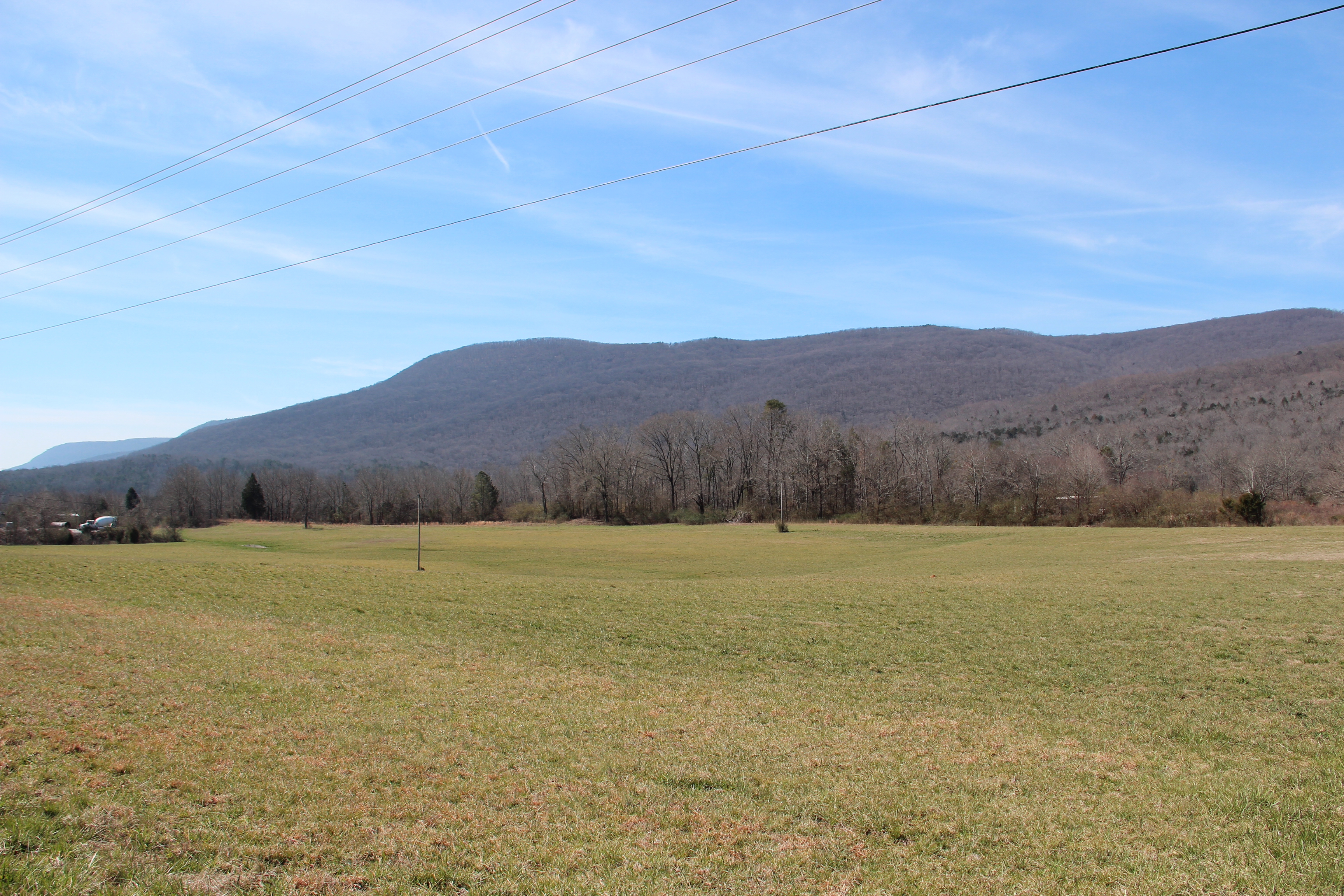 Viewed from State Route 193